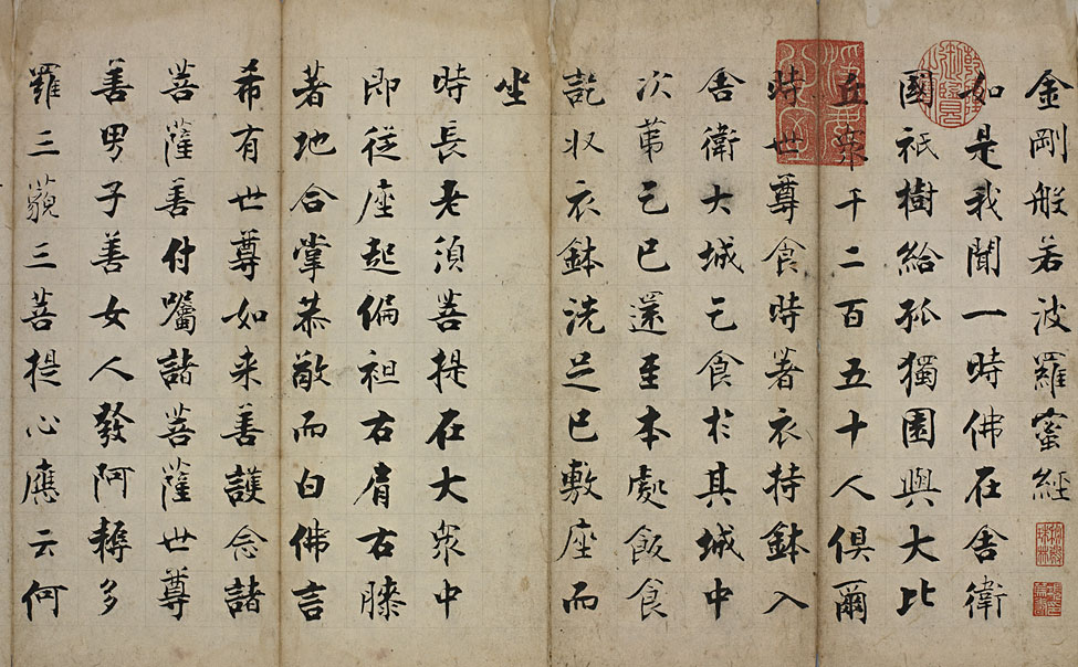 The Chinese calligrapher Zhang Jizhi (張即之, 1186–1266) made this handwritten edition of the Diamond Sutra (section depicted) on 18 July 1253 during the Song dynasty. The calligraphy is in the style of the regular script with elements of the running script. The transcription of sutras, a practice for which Zhang Jizhi was well-known, was considered an act of accumulating merit in Buddhism. The Indian monk Kumarajiva (鳩摩羅什, 344–415) was the translator of the Diamond Sutra from Sanskrit into Chinese. Kumarajiva's translated text was used by Zhang Jizhi in making the depicted work.